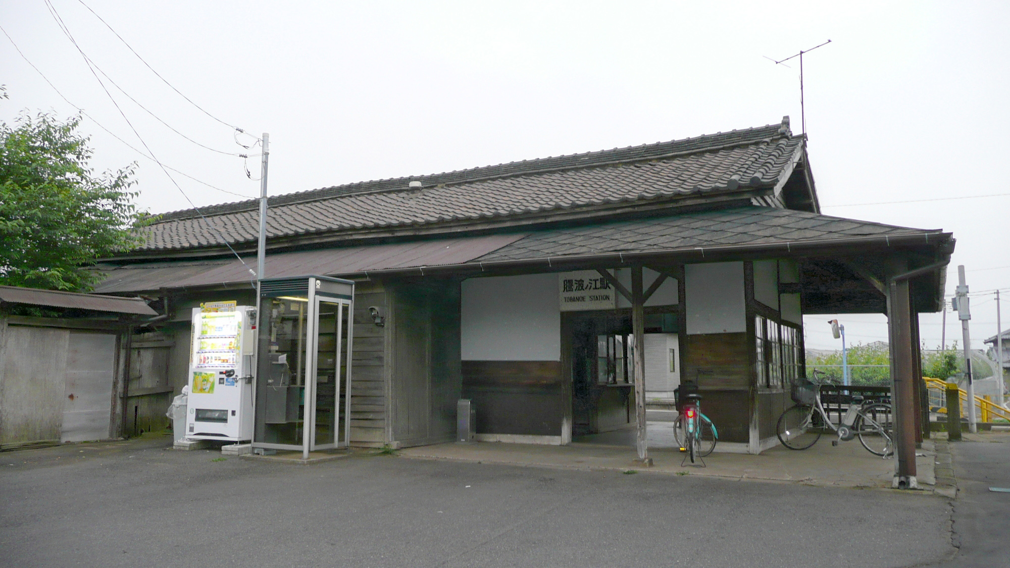 Kanto Railway Tobanoe Station old building